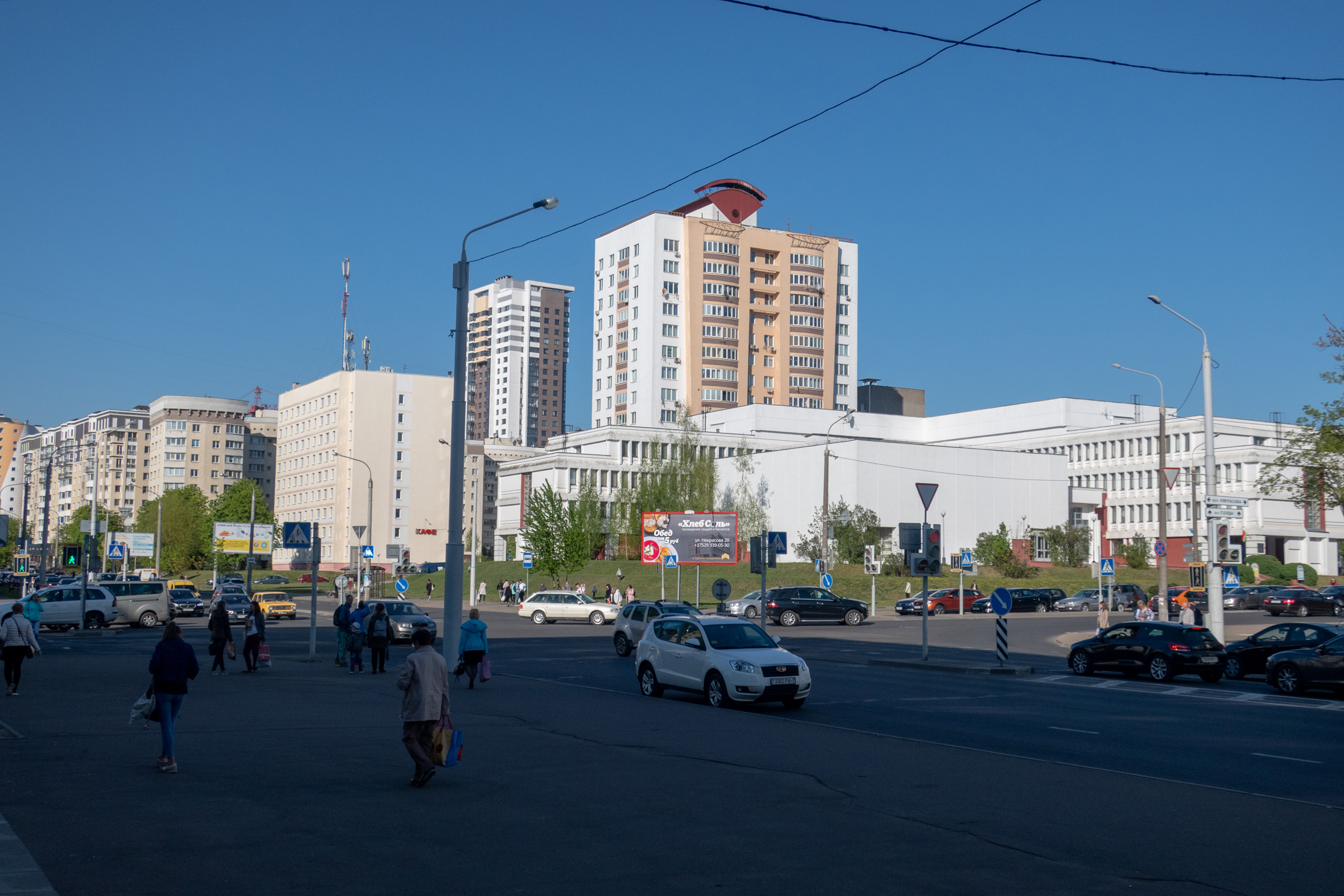 Lieanida Biady street (Minsk, Belarus)